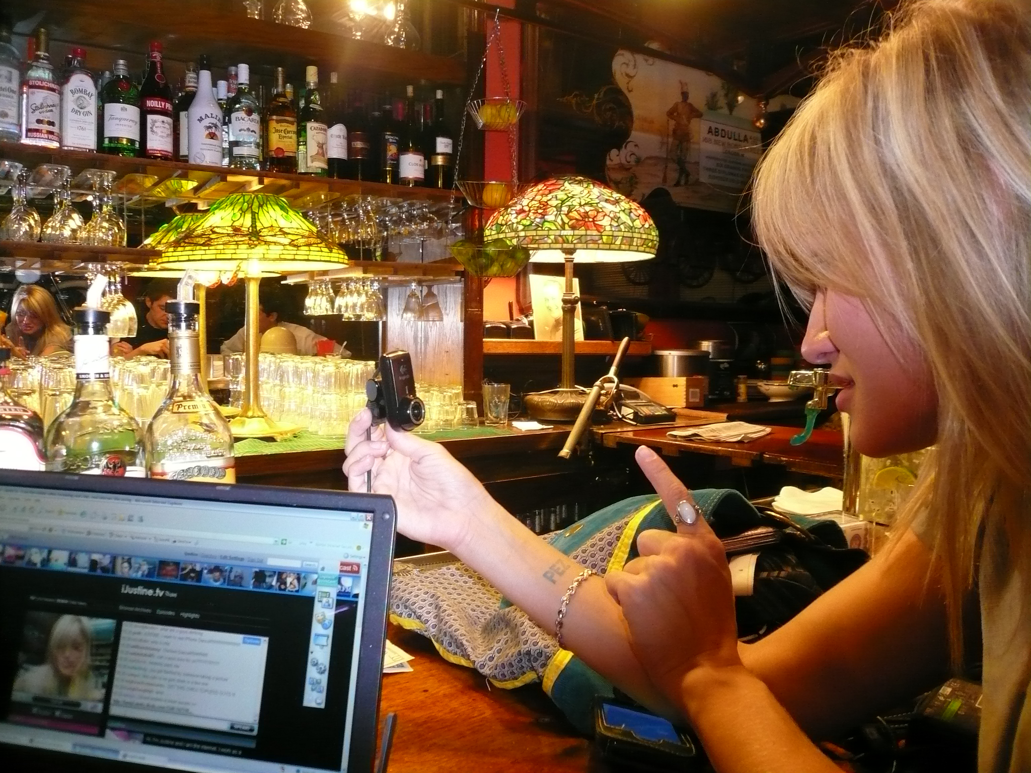 Justine Ezarik demonstrating how Lifecasting works.